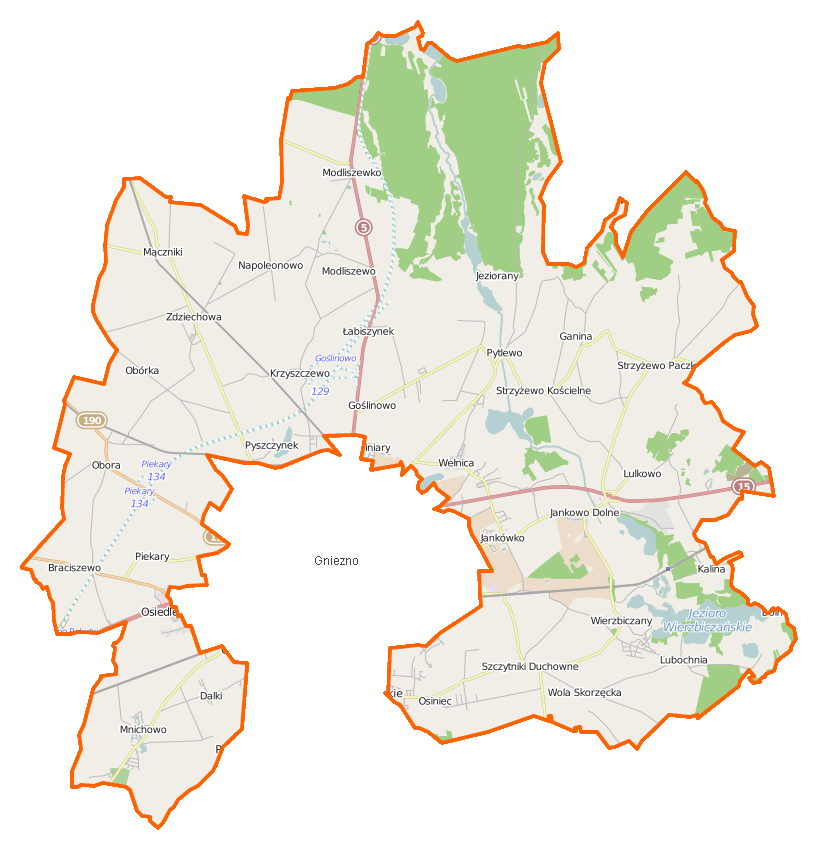 Map of Gmina Gniezno, Poland This map of Gniezno (gmina wiejska) was created from OpenStreetMap project data, collected by the community. This map may be incomplete, and may contain errors. Don't rely solely on it for navigation. Border coordinates52.657617.4899←↕→17.771852.4801